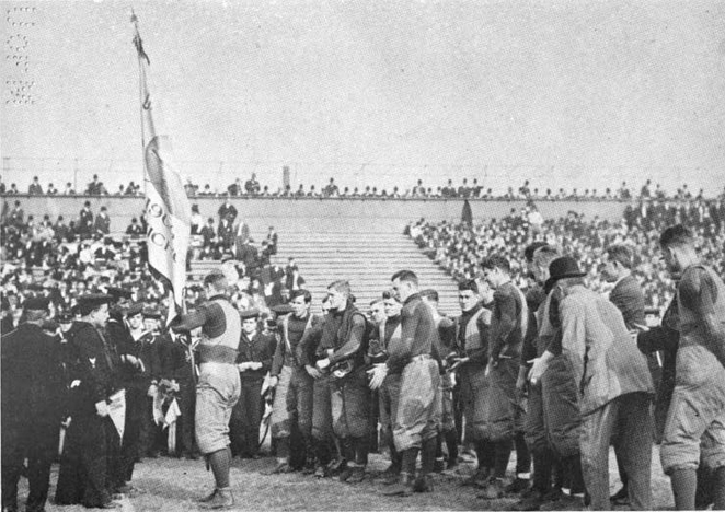 "The presentation of the banner by the sailors of the U.S.S. Michigan, at the Pennsylvania Game -- Captain Allerdice Receiving the Banner." From the Detroit Saturday Night